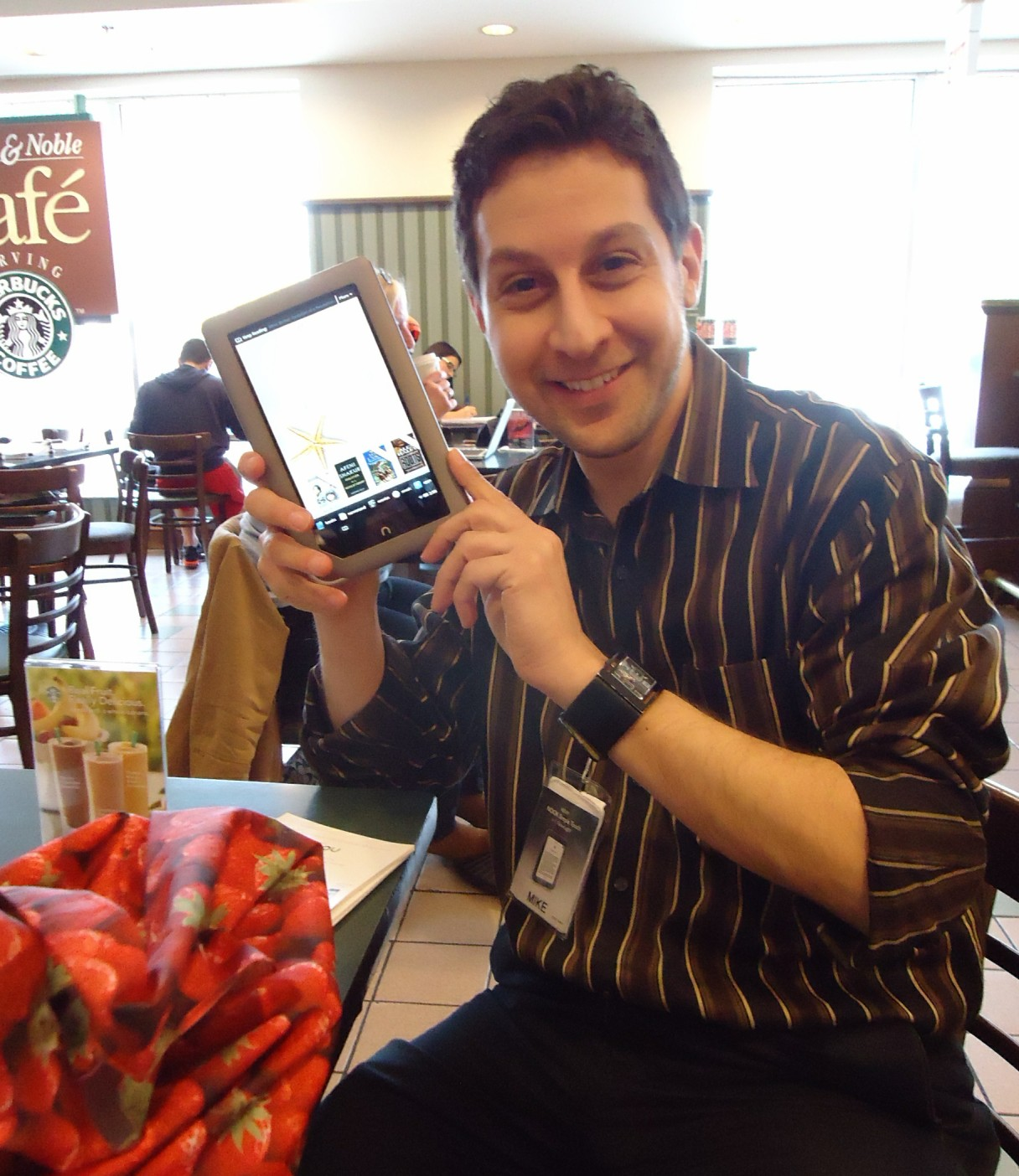 Salesman Mike Blum demonstrating a Nook Tablet in a Barnes & Noble bookstore in New Jersey, in the coffee shop. The Nook is a tablet computer allowing users to read books, surf the Internet, send emails, and do tasks called "apps". Reportedly there is an application that lets a Nook user control their home computer remotely.